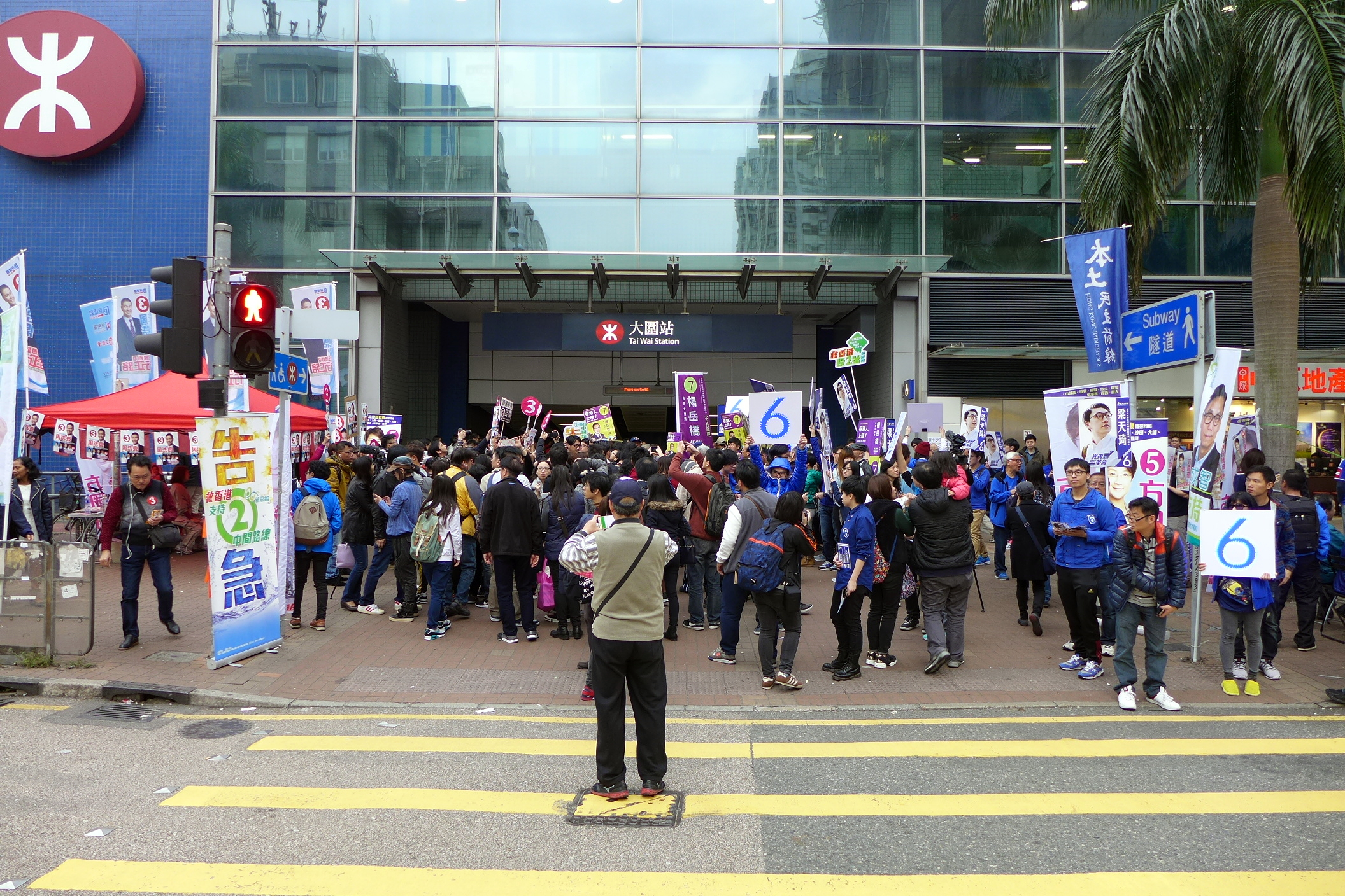 Tai Wai Station outside election promotion